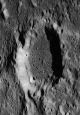 Ap_16_M572 Note: this orbital image was taken at an oblique angle (25° camera tilt), which accounts for the elliptical appearance of the crater.